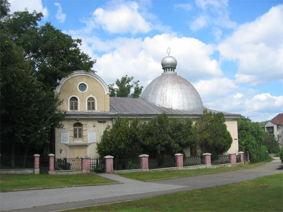 Iasi "Great Synagogue", circa 1670. Photo take by Corey Samuels in September, 2006.